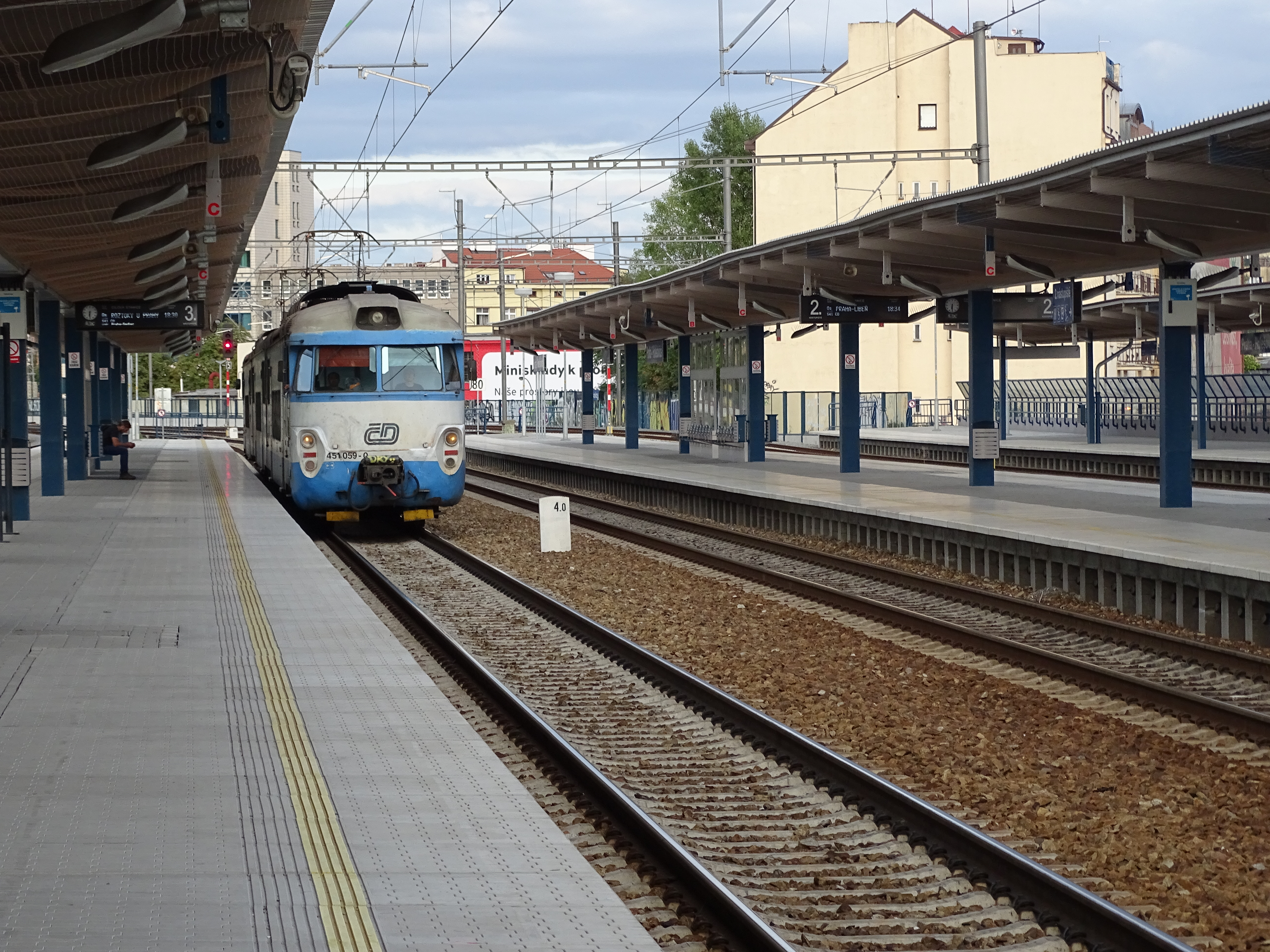 Prague-Holešovice, Czech Republic. Train station Praha-Holešovice, a train.